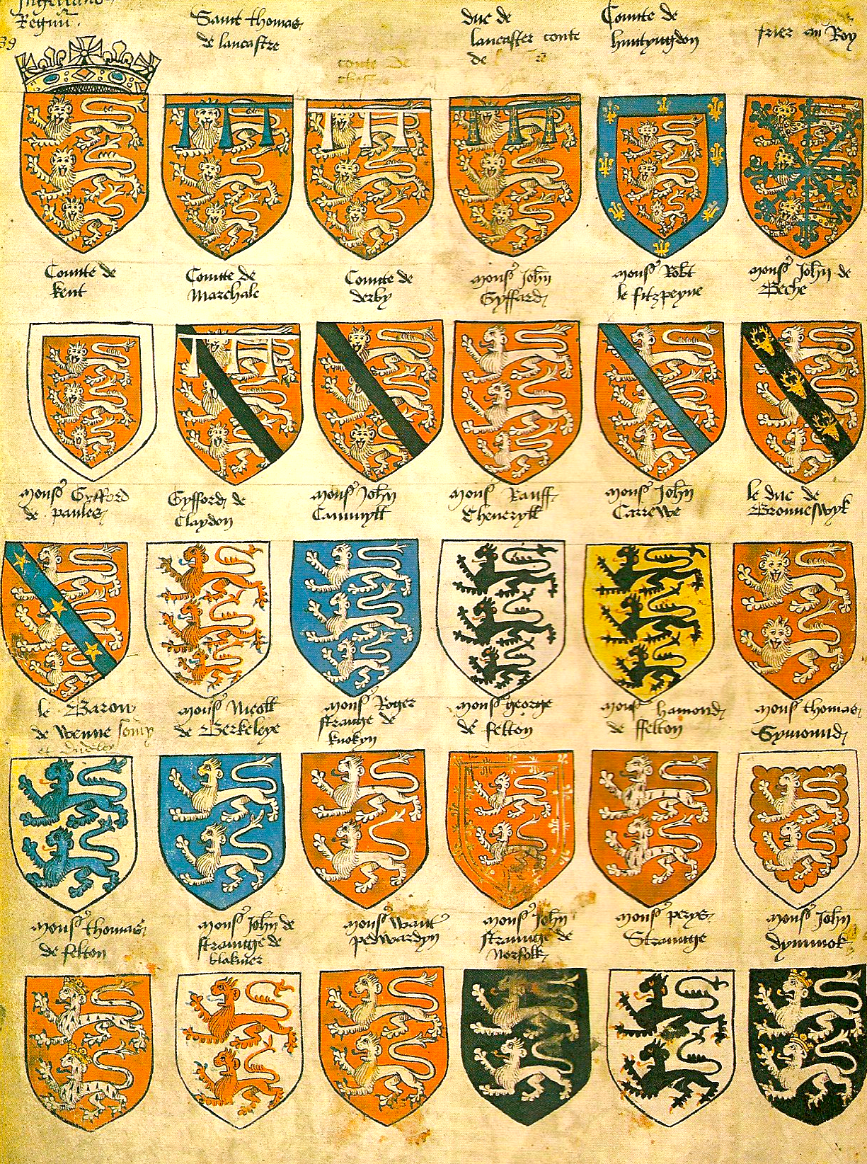 'Prince Arthur's Book', pre-1485, when Thomas Stanley, 2nd Baron Stanley (c. 1435-1504) was created Earl of Derby. Here the arms of the Earl of Derby are shown not as Argent, on a bend azure three buck's heads cabossed or (Stanley) but as as the royal arms of Plantagenet, which are the arms of Henry Bolingbroke, 3rd Earl of Derby (1367–1413) (from 1399 King Henry IV), or earlier royal holder. Ordinary of lions showing the similarity of early arms, which would have reduced their efficacy as a means of identification in battle. The book was the property of Prince Arthur (1486-1502), Prince of Wales, eldest son of King Henry VII and older brother of King Henry VIII.